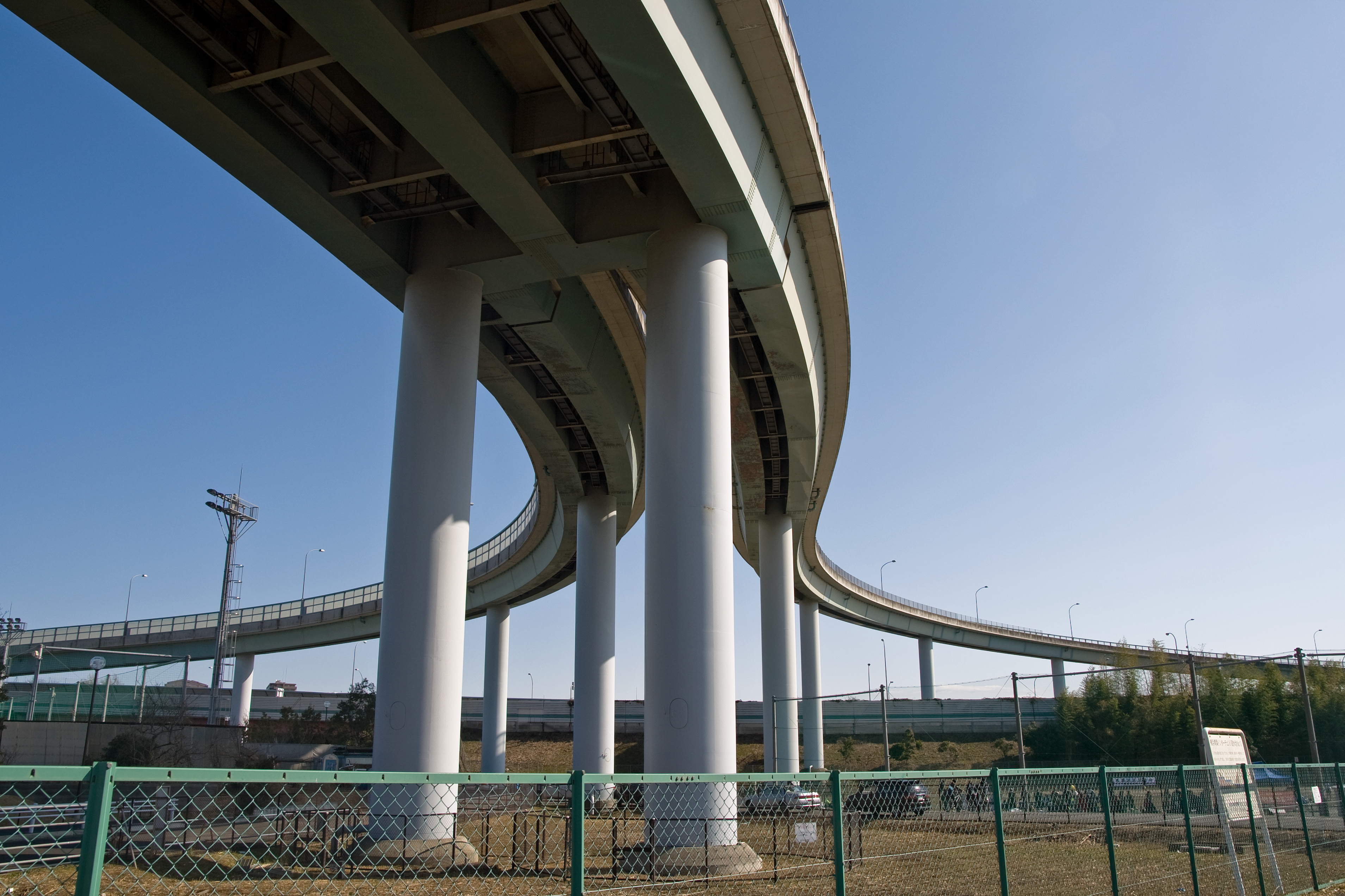 Yokohama-Aoba Interchange on Tōmei Expressway, in Aoba-ku, Yokohama City, Kanagawa Prefecture, Japan